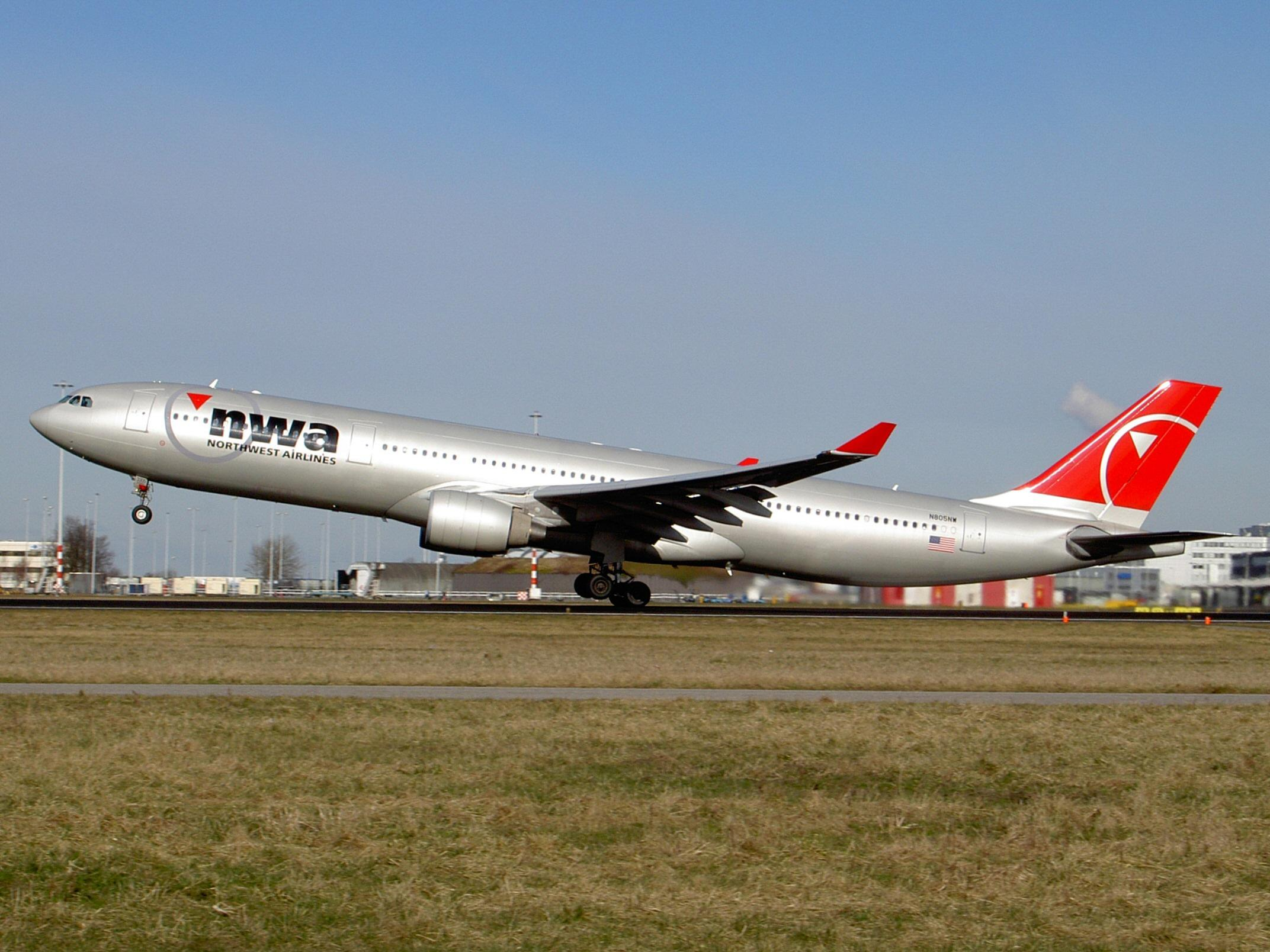 Photographed at Amsterdam Airport, (Schiphol).